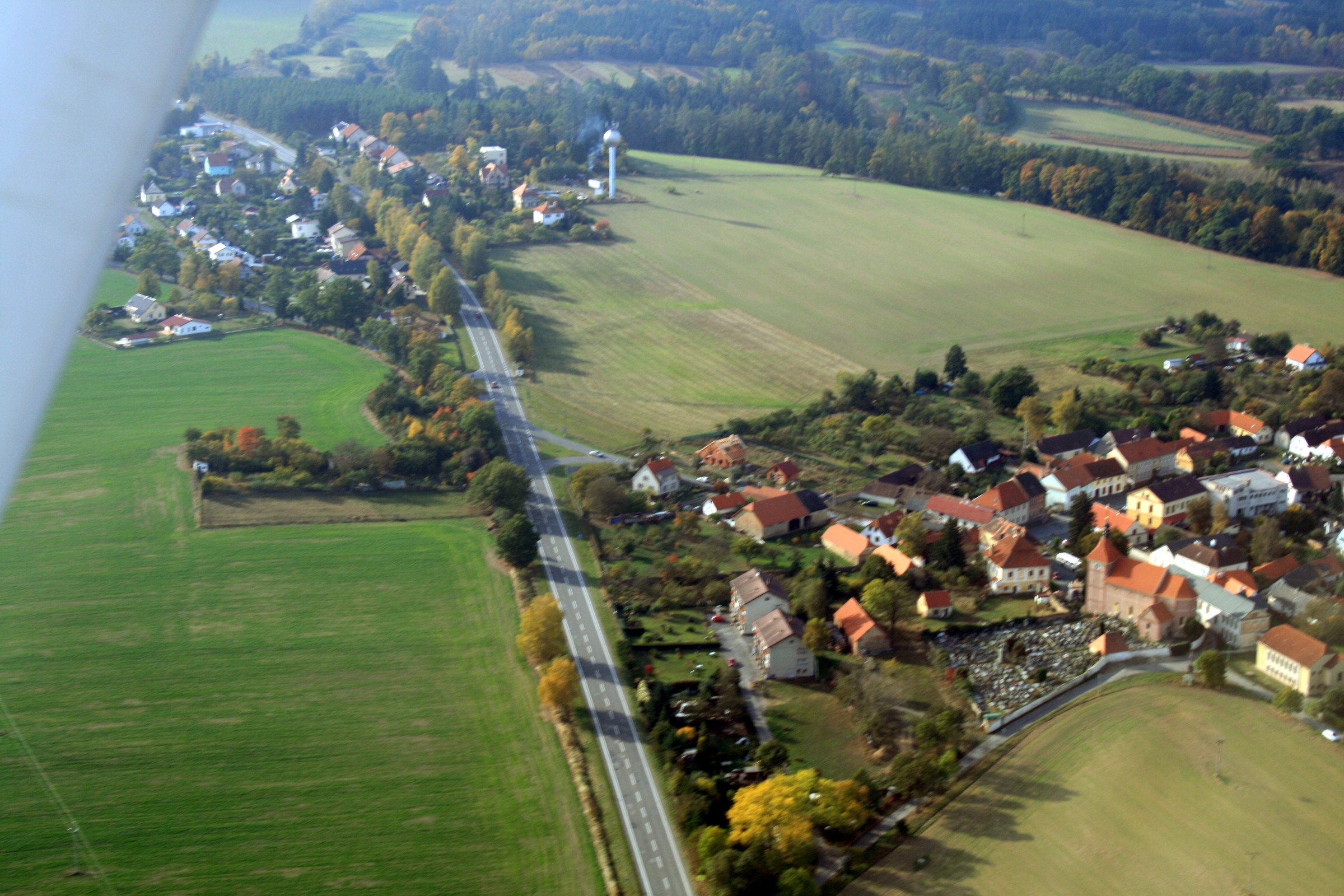 Air photo of the villag of Staré Sedlo, part of Orlík nad Vltavou municipality in Písek District, South Bohemian Region, the Czech Republic